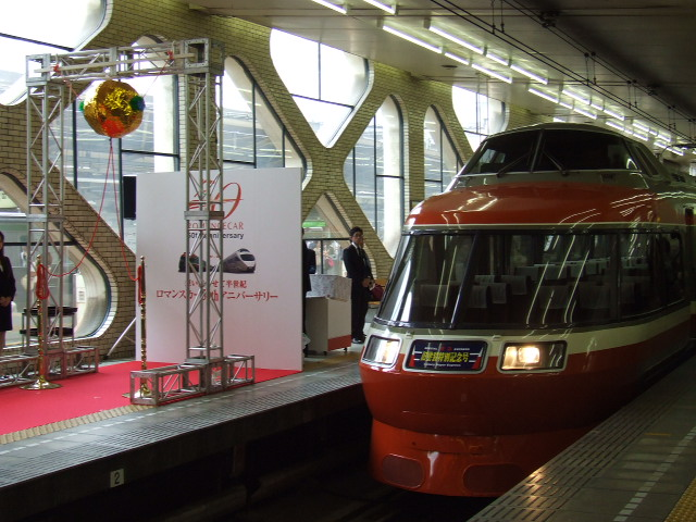 50th Ceremony of Odakyu RomanceCar, Odakyu Electric Railway, Japan